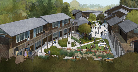 Plans for construction of World Languages facility at the College Preparatory School in Oakland, CA, USA.